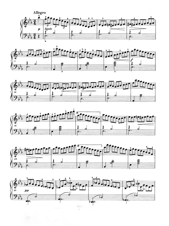 Impromptus D899 No 2 (Franz Schubert)